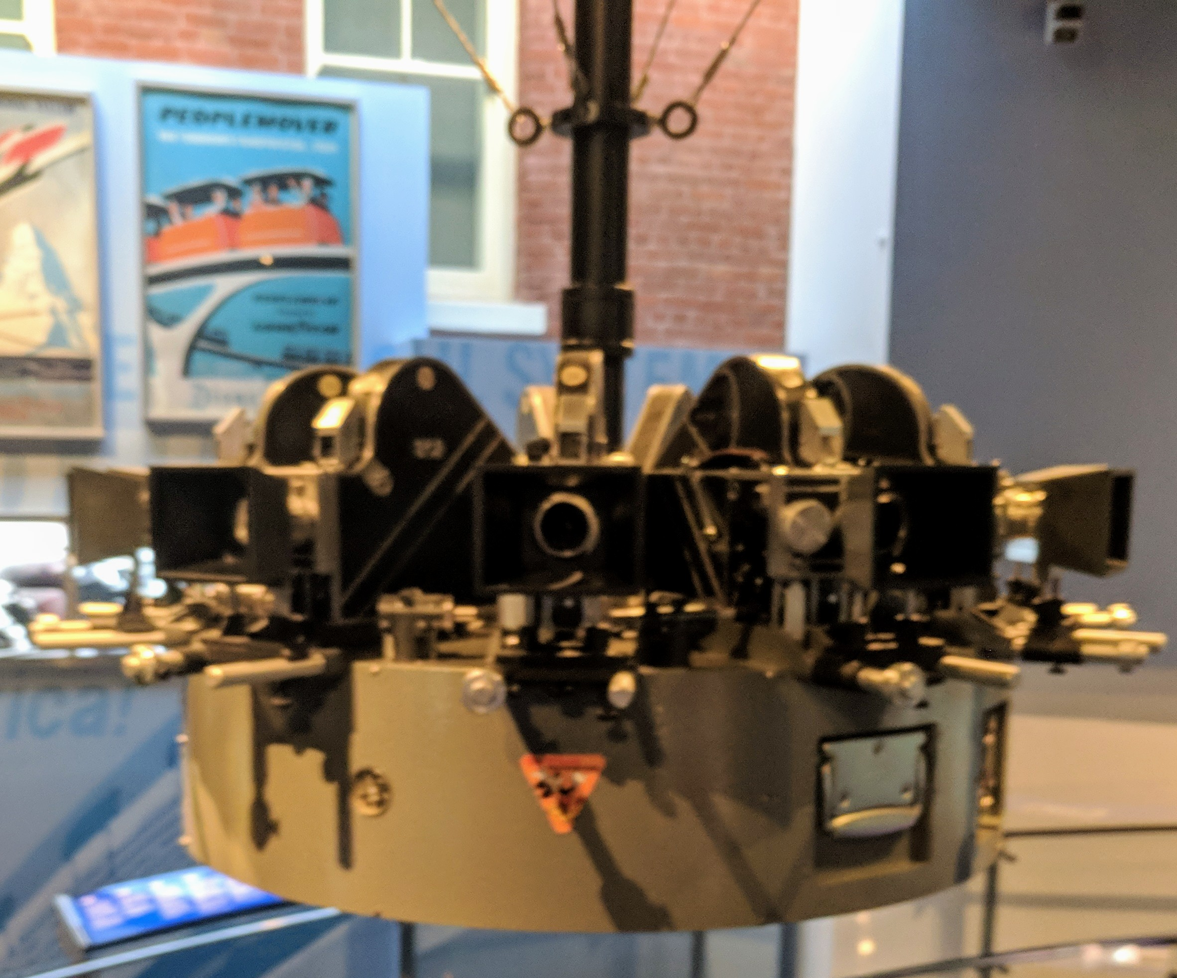 Circle-Vision 360 camera at the Walt Disney Family Museum